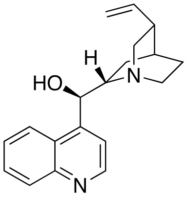 2d molecular structure of Cinchonidine